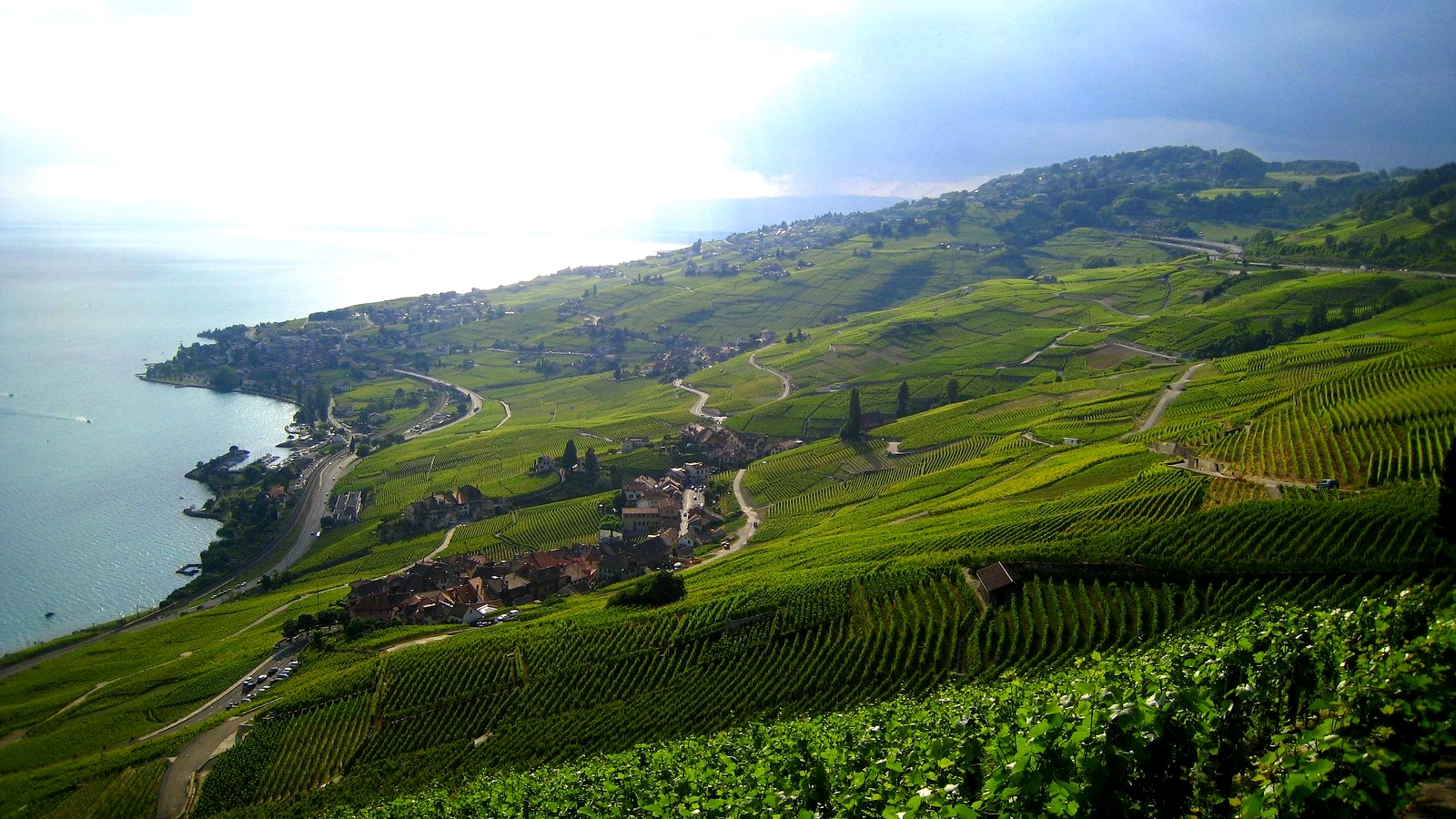 View over the village of Epesses and the Lavaux